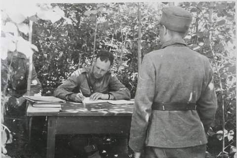 The Field Court Martial of the Finnish 15th Brigade in July 1944